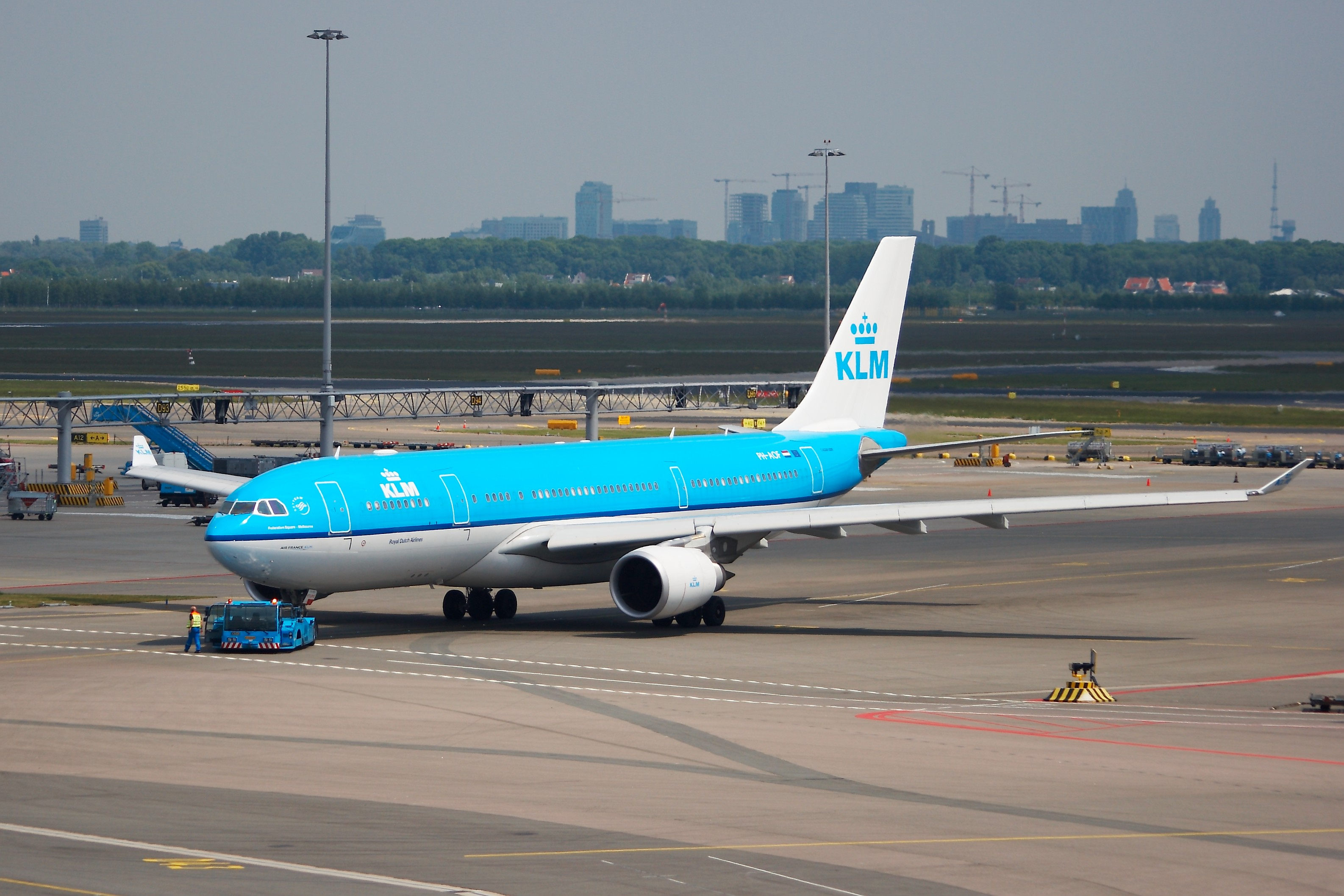 A KLM Airbus A330-200 at Amsterdam Airport Schiphol